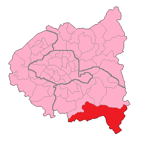 Map of Val-de-Marne's 3rd constituency shown within Ile-de-France (Petite Couronne)